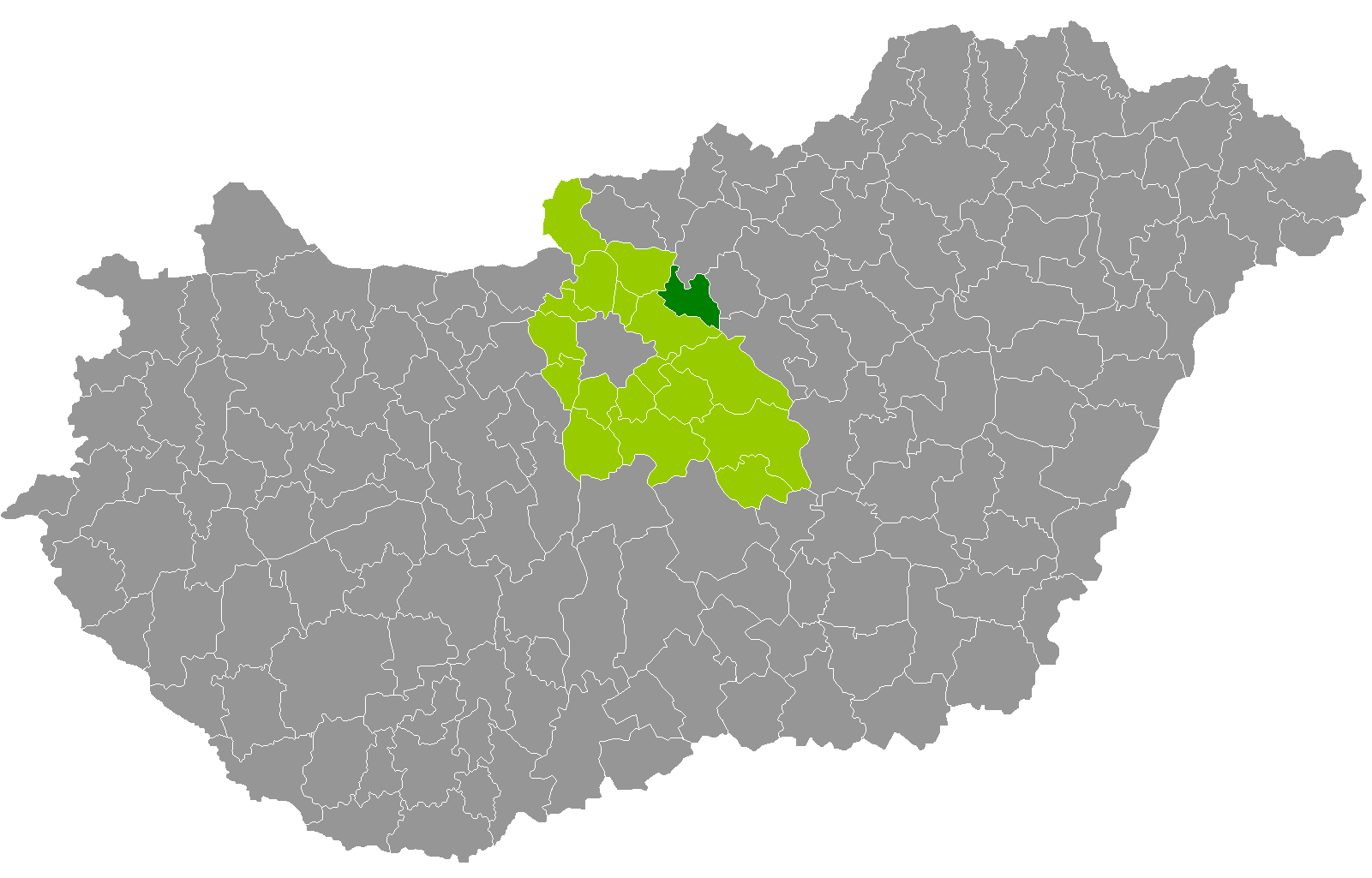 Location of Aszód District, Pest, Hungary